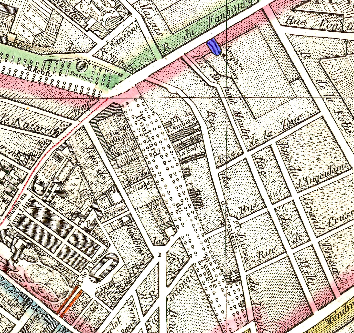 Detail from an 1814 map of Paris, showing the location of the Amphithéâtre d'Astley (spelled Asteley on the map), also known as the Amphithéâtre Anglais